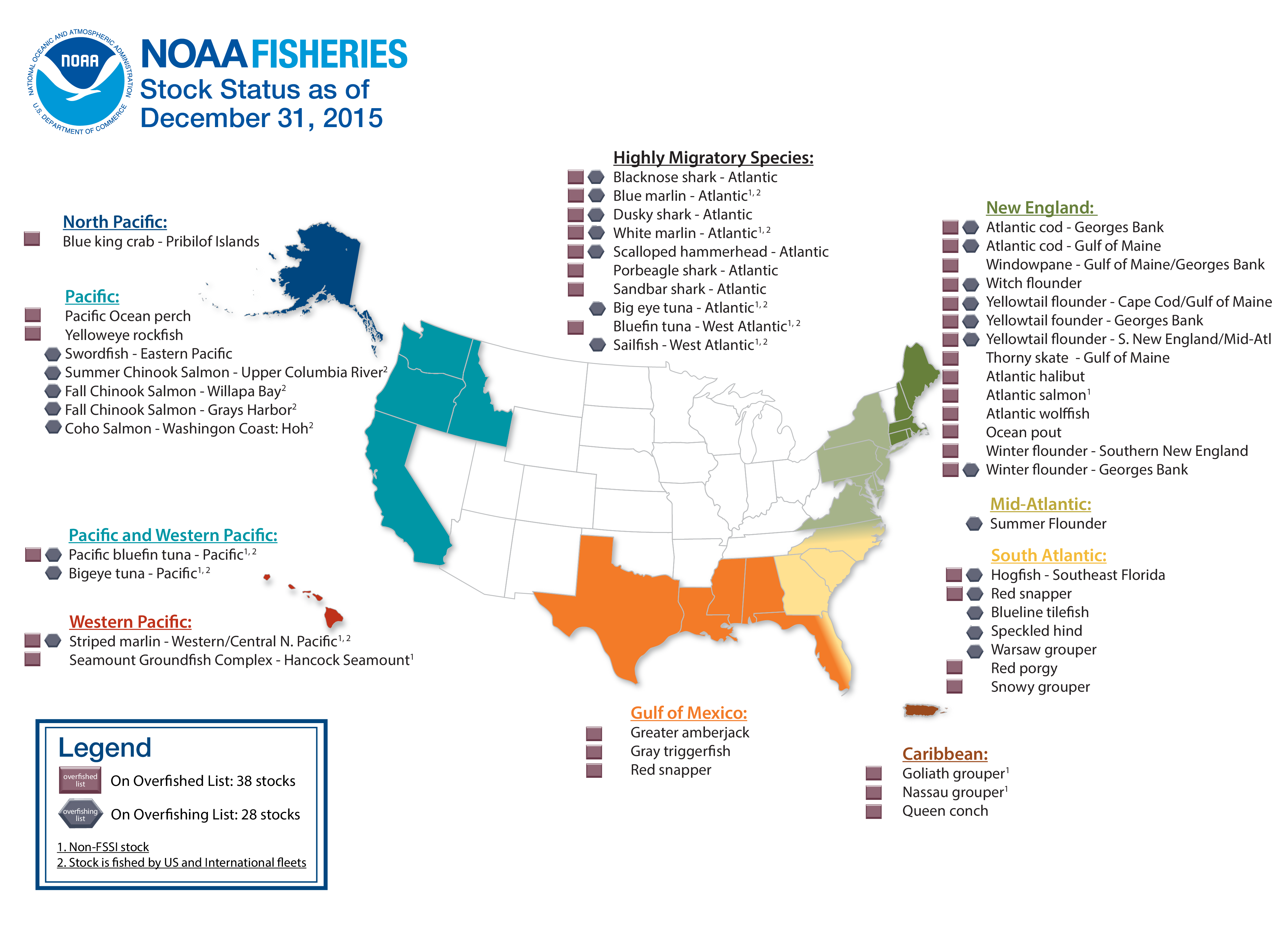 US fish stocks that are overfished (population too low) and/or are experiencing overfishing (catch rate too high).